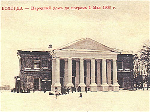 People's house in Vologda before the pogrom of May 1, 1906